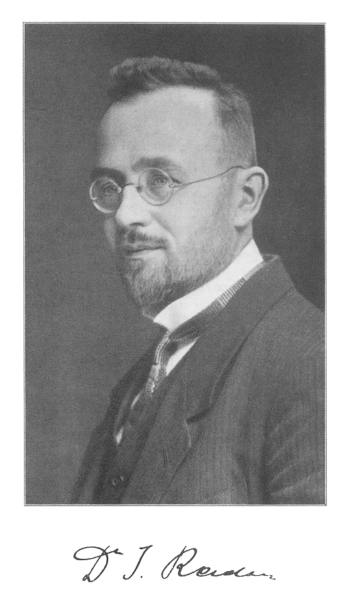 Portrait of Johann Radon about 1920